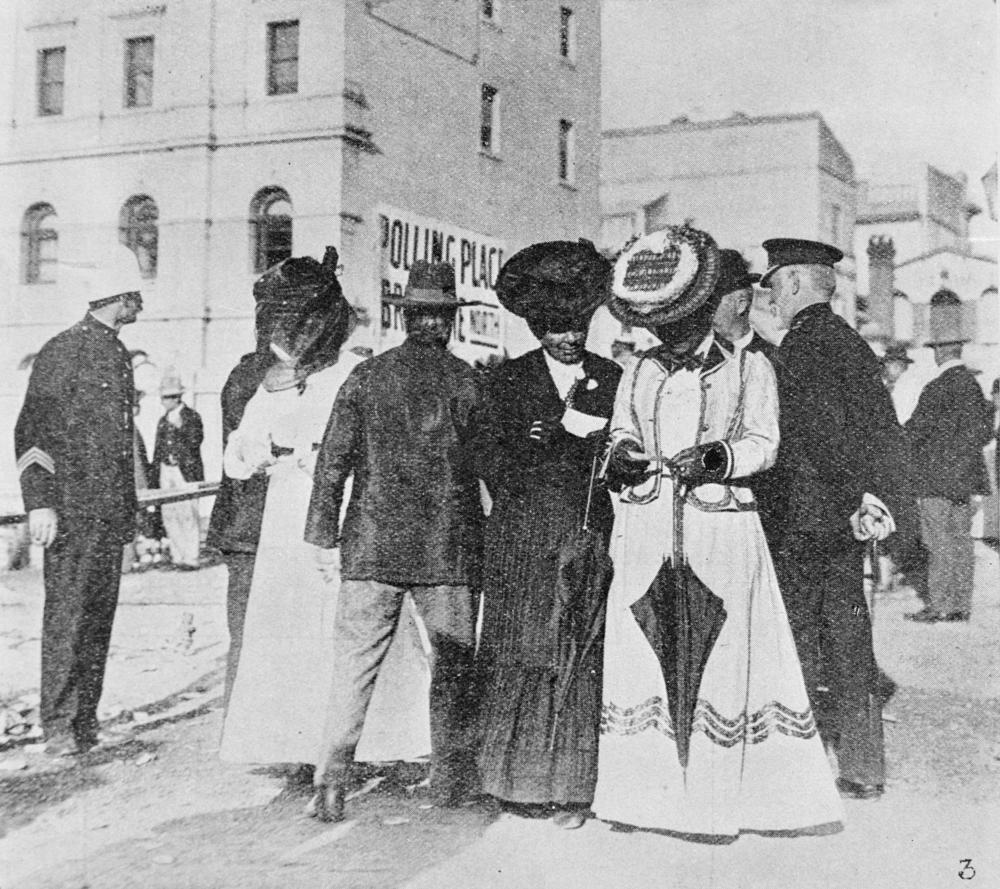 Women at the first state election comparing notes, Brisbane, 1907 : [suffragette movement in Queensland] Celebrating the centenary of the suffrage movement in Queensland. On 5 January 1905, two years after the formation of the Queensland Women's Electoral League, the Electoral Franchise Bill was introduced into the Legislative Assembly to give the women of Queensland the right to vote. The Elections Acts Amendment Bill providing the necessary machinery, was introduced at the same time. Despite some misgivings about abolishing the plural vote, and difficulty with postal voting, these issues were overcome and the legislation giving the women of Queensland the right to vote was finally passed. It was assented to by the Lieutenant-Governor on 26 January 1905.